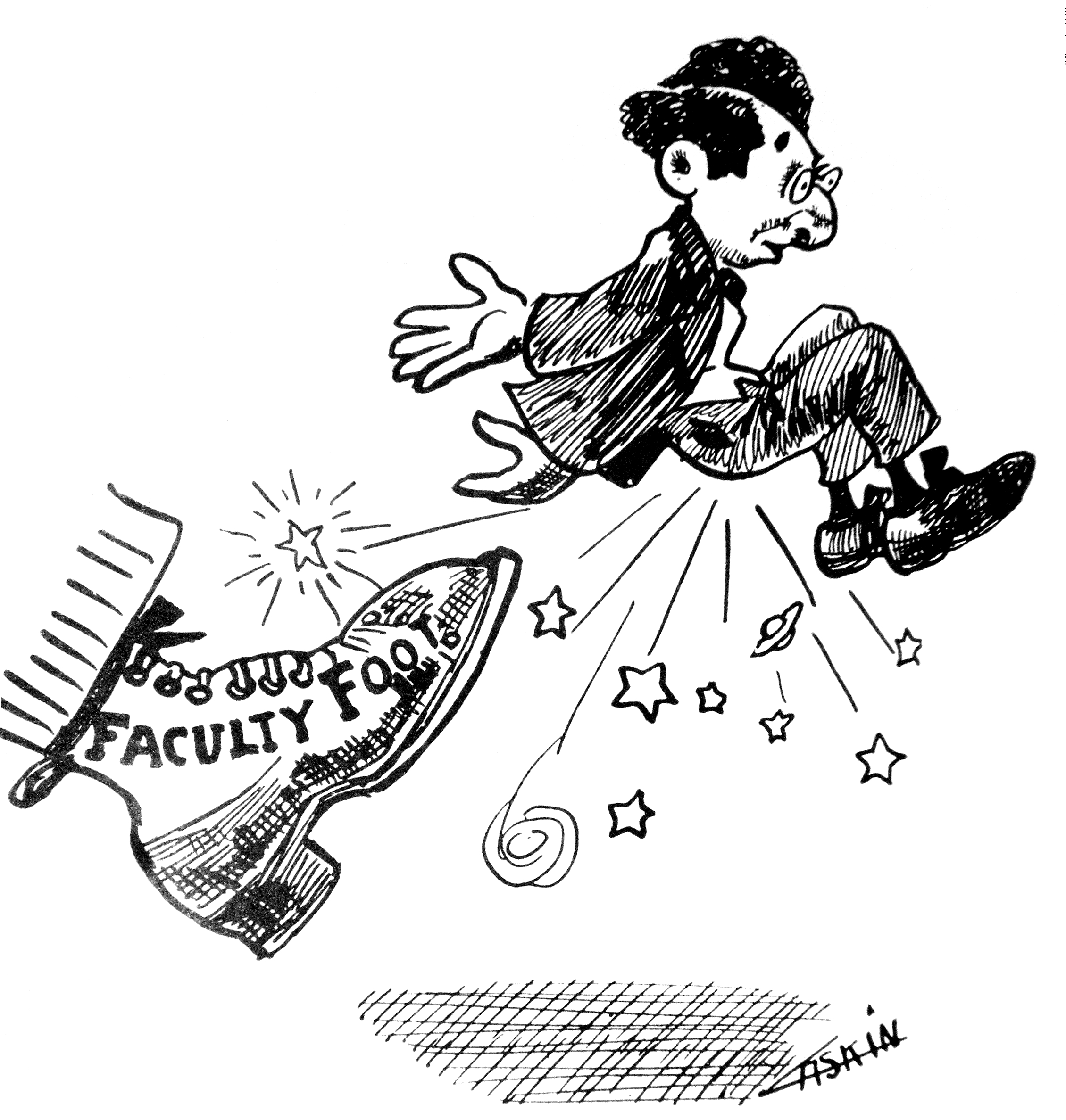 "Faculty Foot". Illustration for a piece of verse in 1909 Tyee (yearbook of the University of Washington).